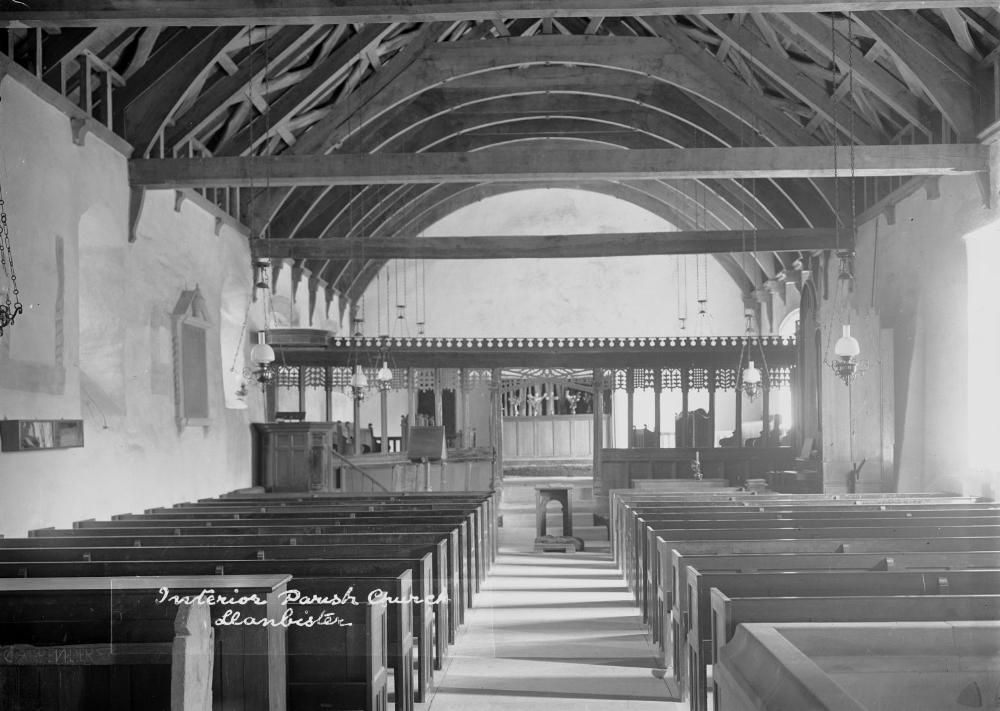 Abstract: Interior parish church Llanbister